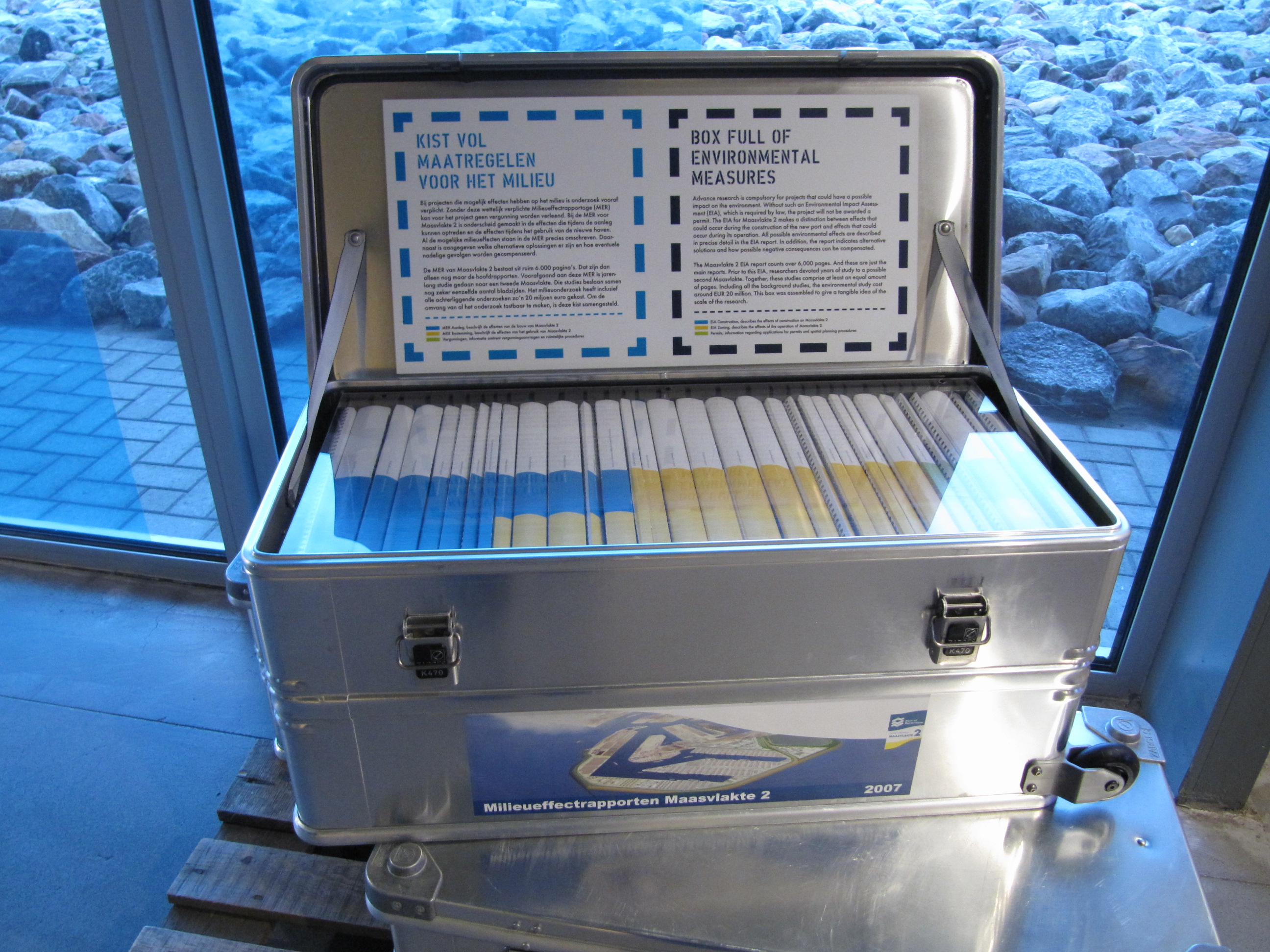 Milieueffectrapportage Maasvlakte 2